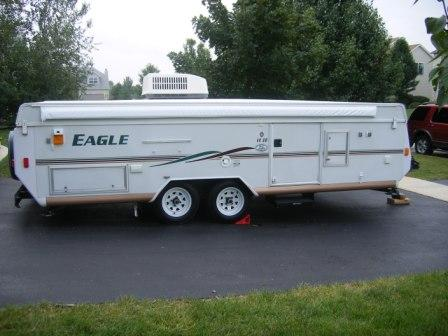 Jayco fold-down camper